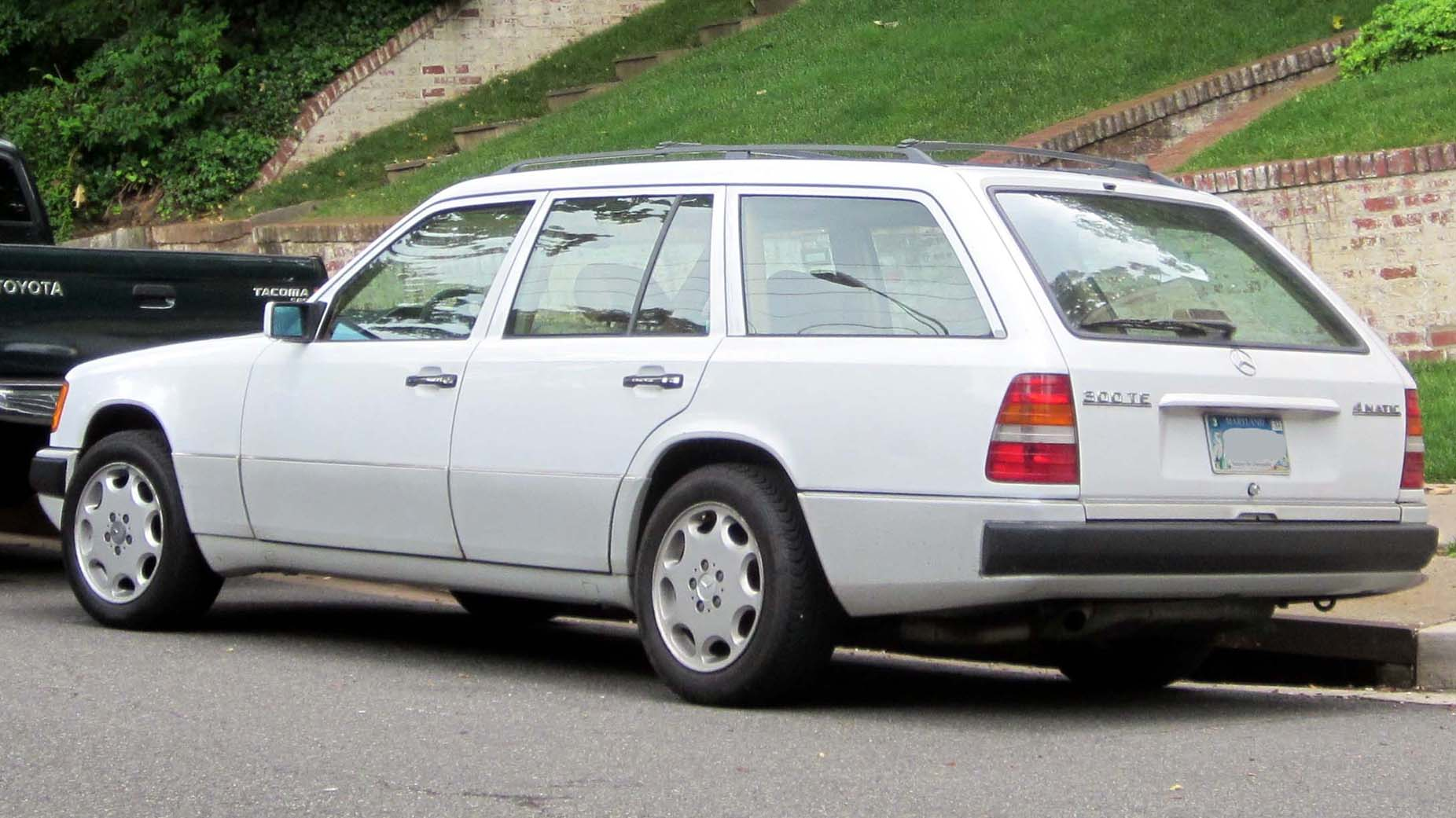 Mercedes-Benz 300TE photographed in Washington, D.C., USA.